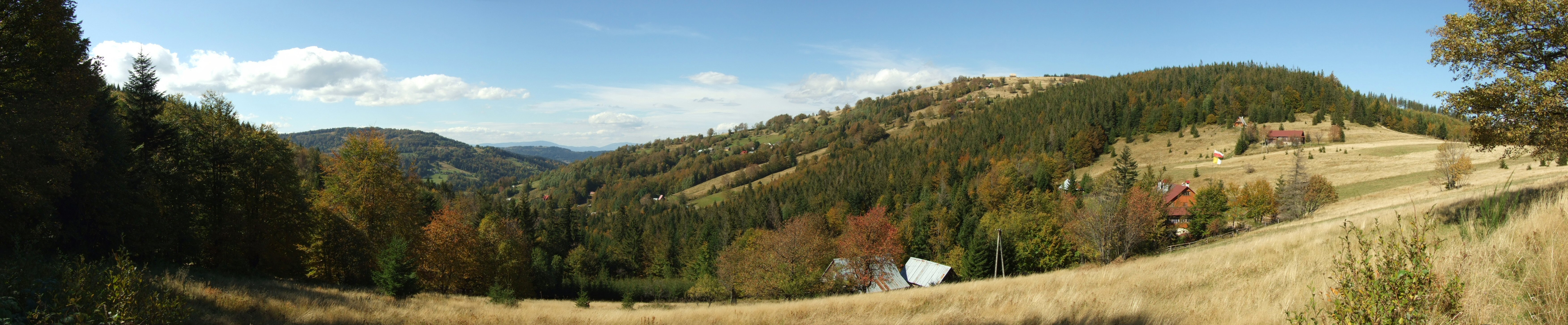 Klekociny defile in The Beskids.